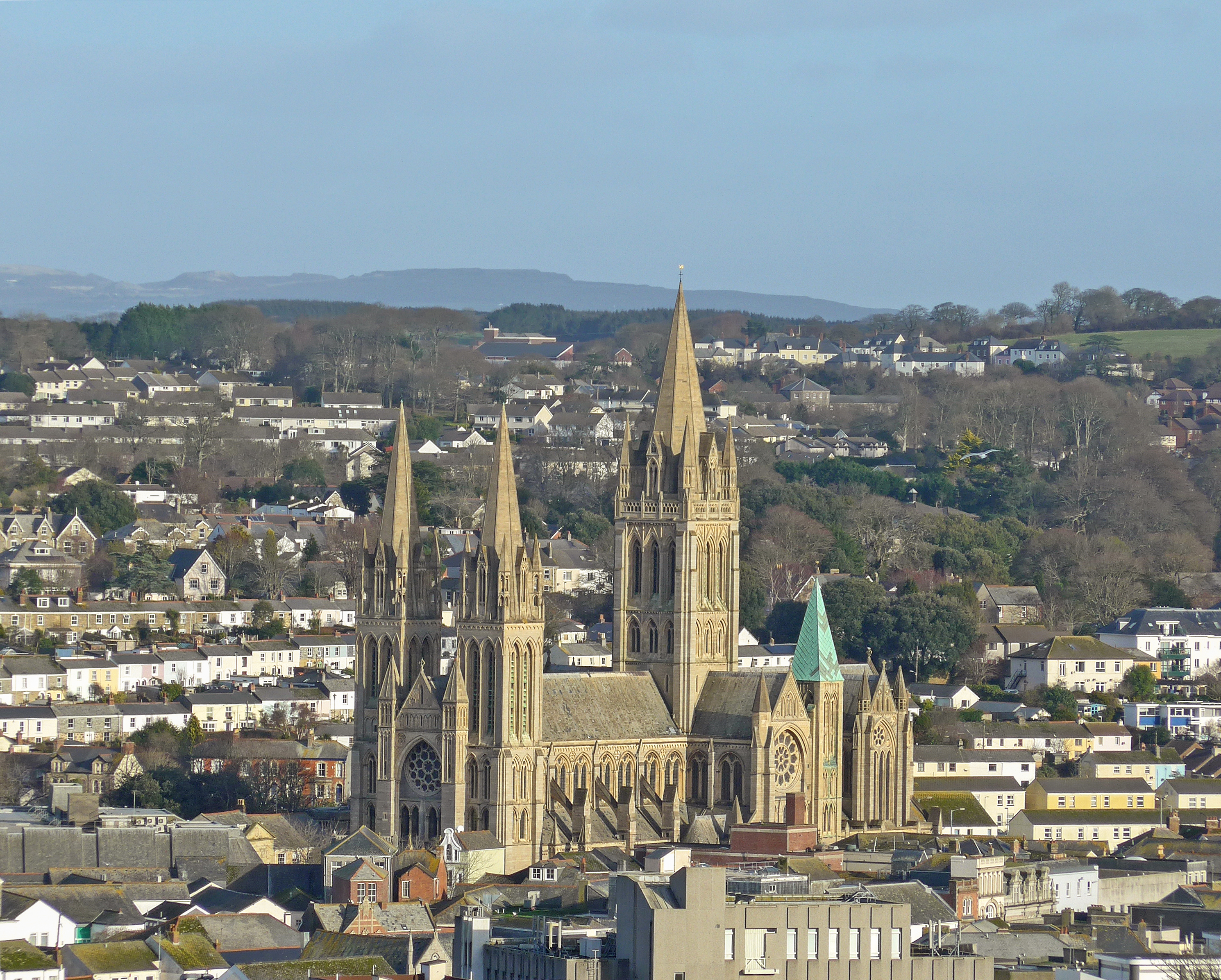 A distant view of Truro and its unique cathedral. , wider Cornwall can be seen beyond. Taken by Flickr user Tim Green aka atouch on Friday the 2nd of January 2015.